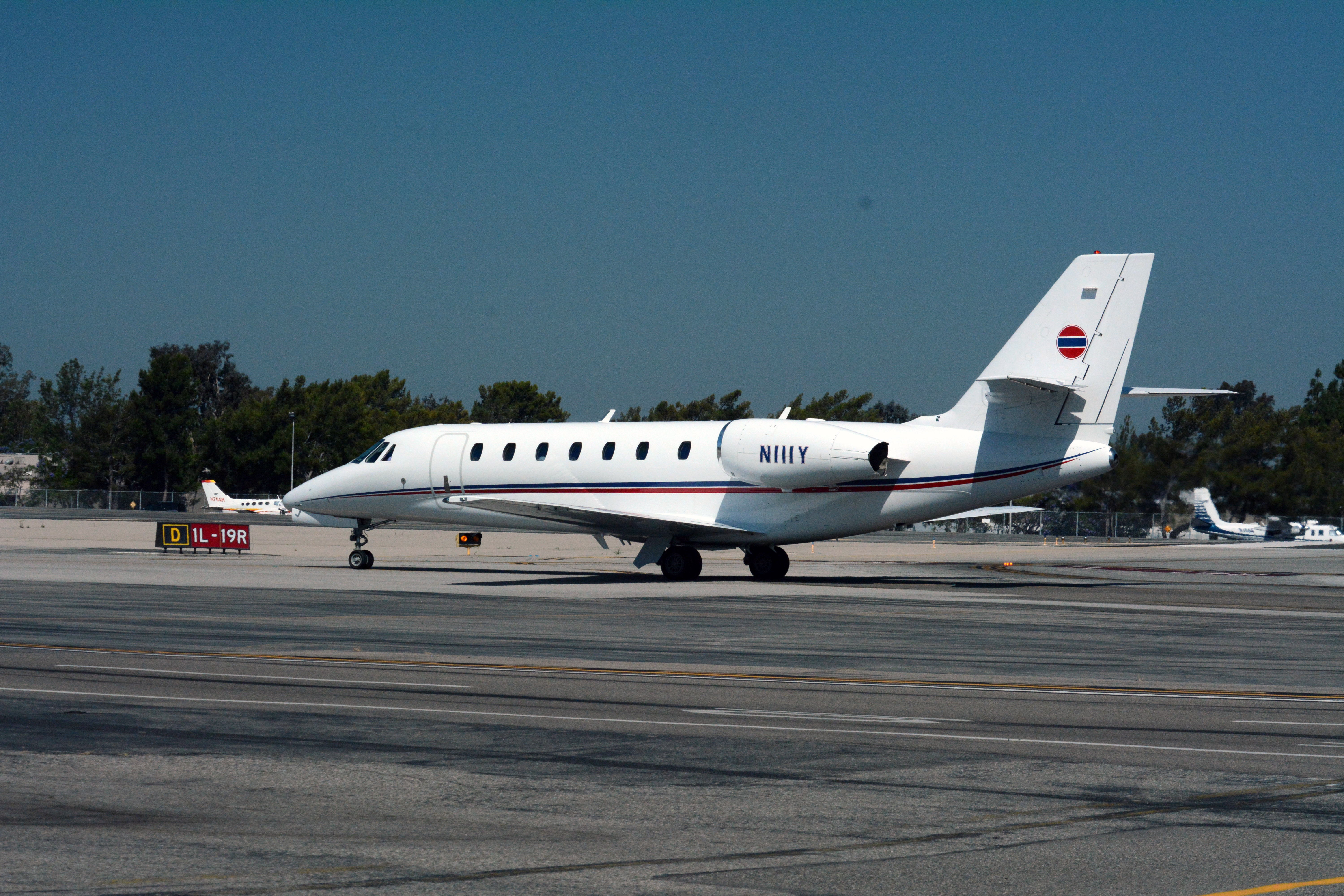 2007 CESSNA 680 photo D Ramey Logan